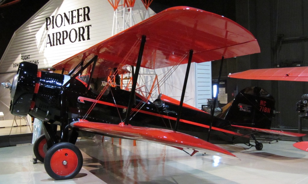 Spartan C3-225